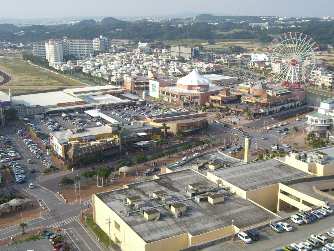 Mihama Town Resort American Village in Okinawa, Japan.(沖縄県にあるアメリカンビレッジ)